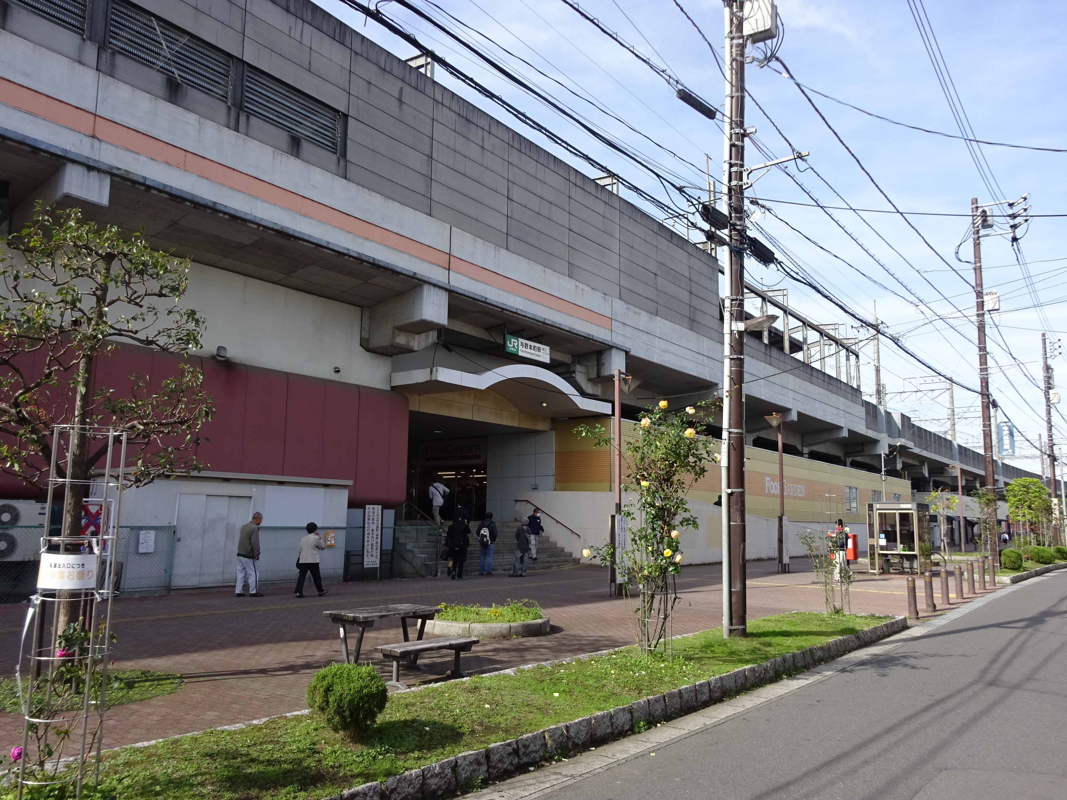 East Entrance of Yonohommachi Station